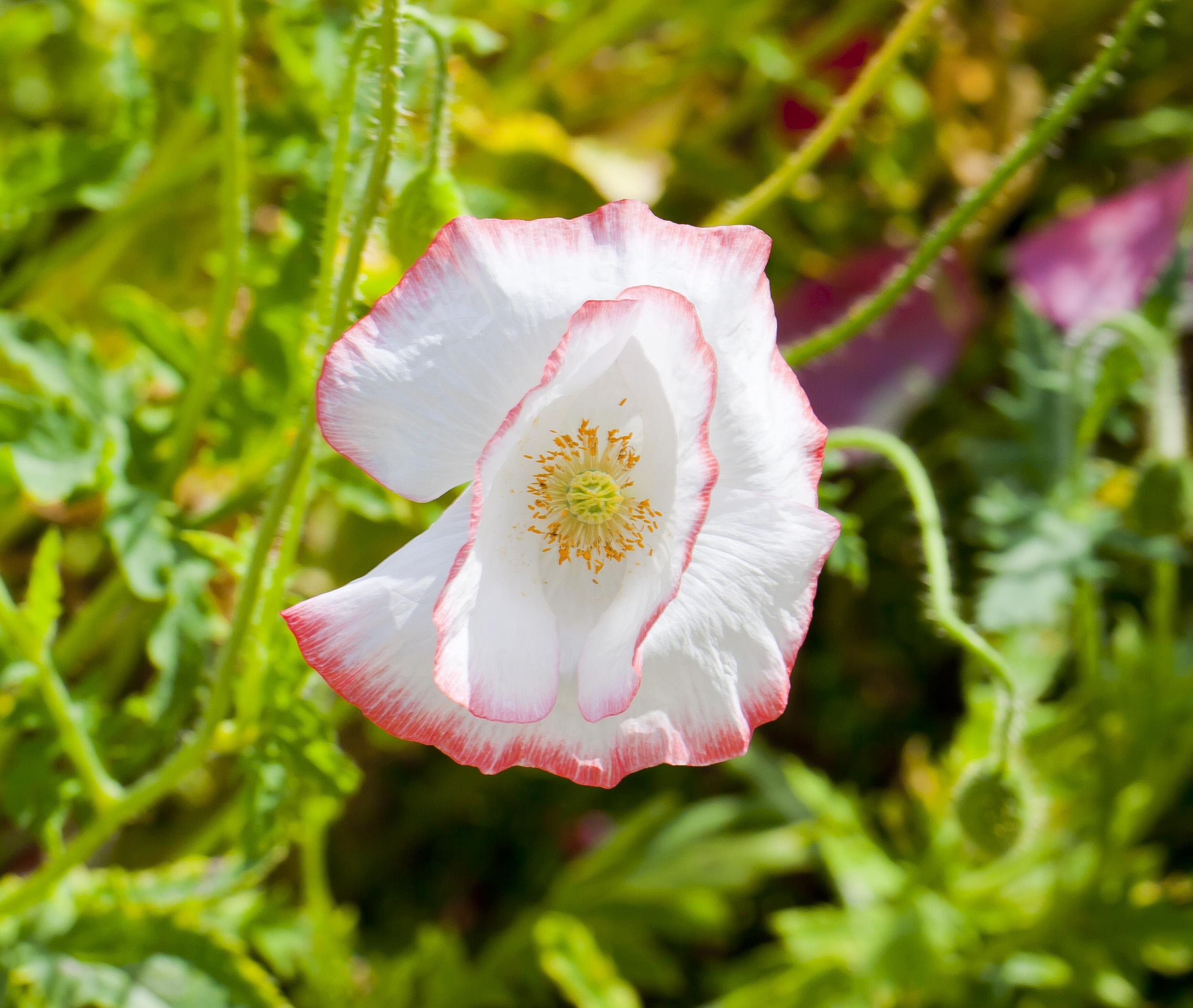 Papaver (Papaver rhoeas), center of Tallinn, Estonia